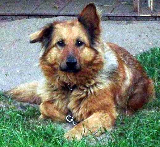 german shepherd mix